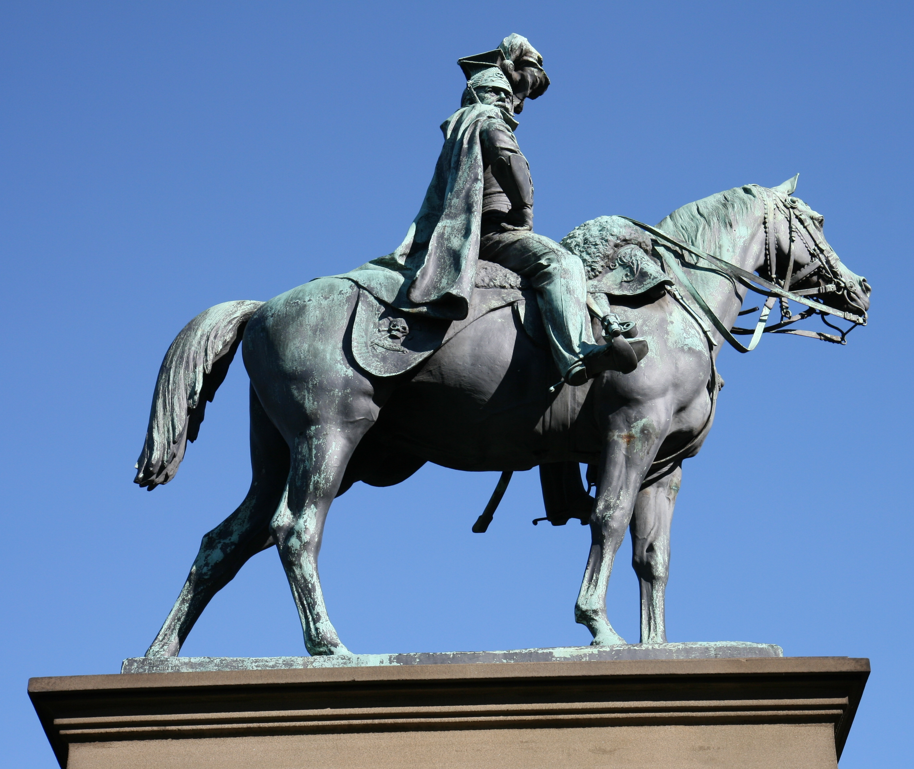 Statue of Godfrey Charles Morgan, 1st Viscount Tredegar, on the lawn of Cardiff City Hall. Sir William Goscombe John was the sculptor.